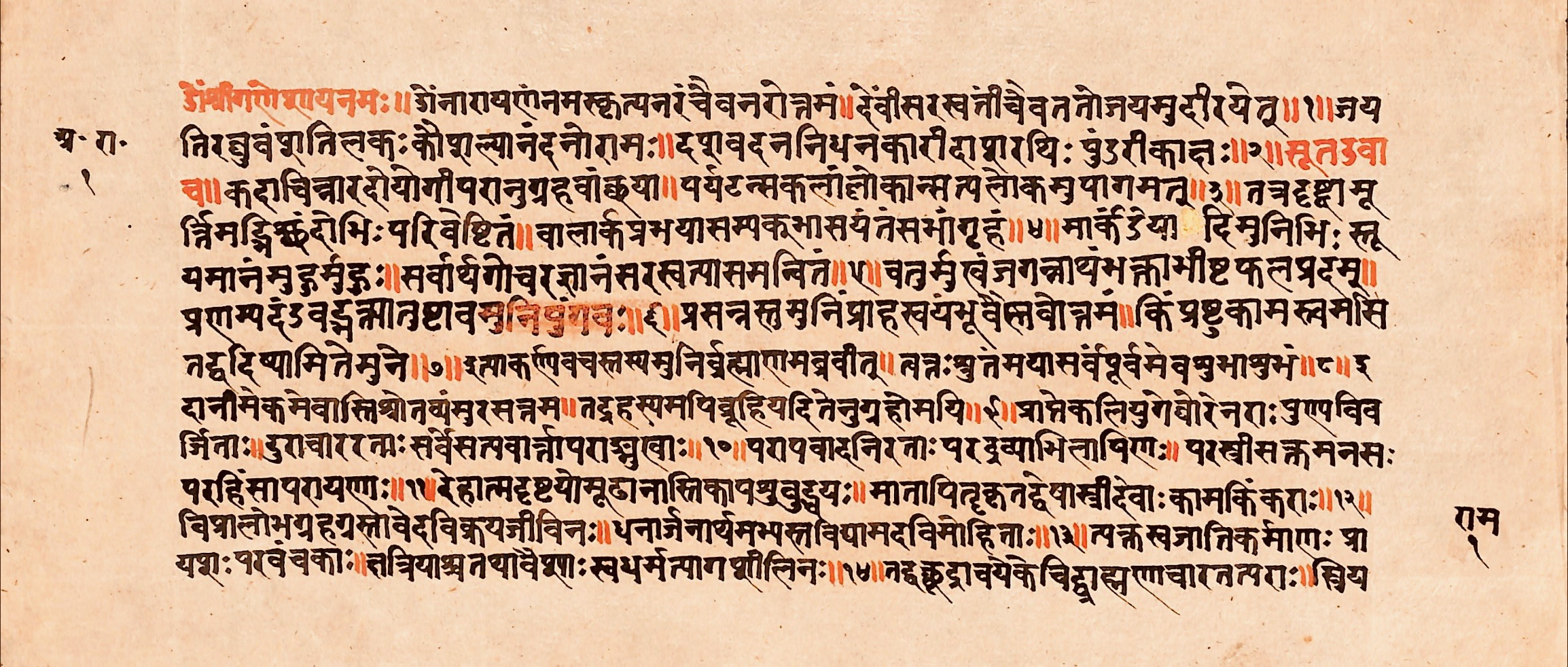 This is a page from the Brahmanda Purana manuscript. More specifically it shows verses 1.1–1.14 of the 4,500 verse long Adhyatma Ramayana, an Advaita Vedanta interpretation of the Hindu epic Ramayana. It is a key text of the Ramanandi subtradition of Vaishnavism. Language: Sanskrit Script: Devenagari This manuscript was acquired in the 19th-century, and was produced in or before the acquisition. The photo above is of a 2D artwork from the text that was itself authored more than 500 years ago. Therefore Wikimedia Commons PD-Art licensing guidelines apply. Any rights I have as a photographer is herewith donated to wikimedia commons under CC 4.0 license.